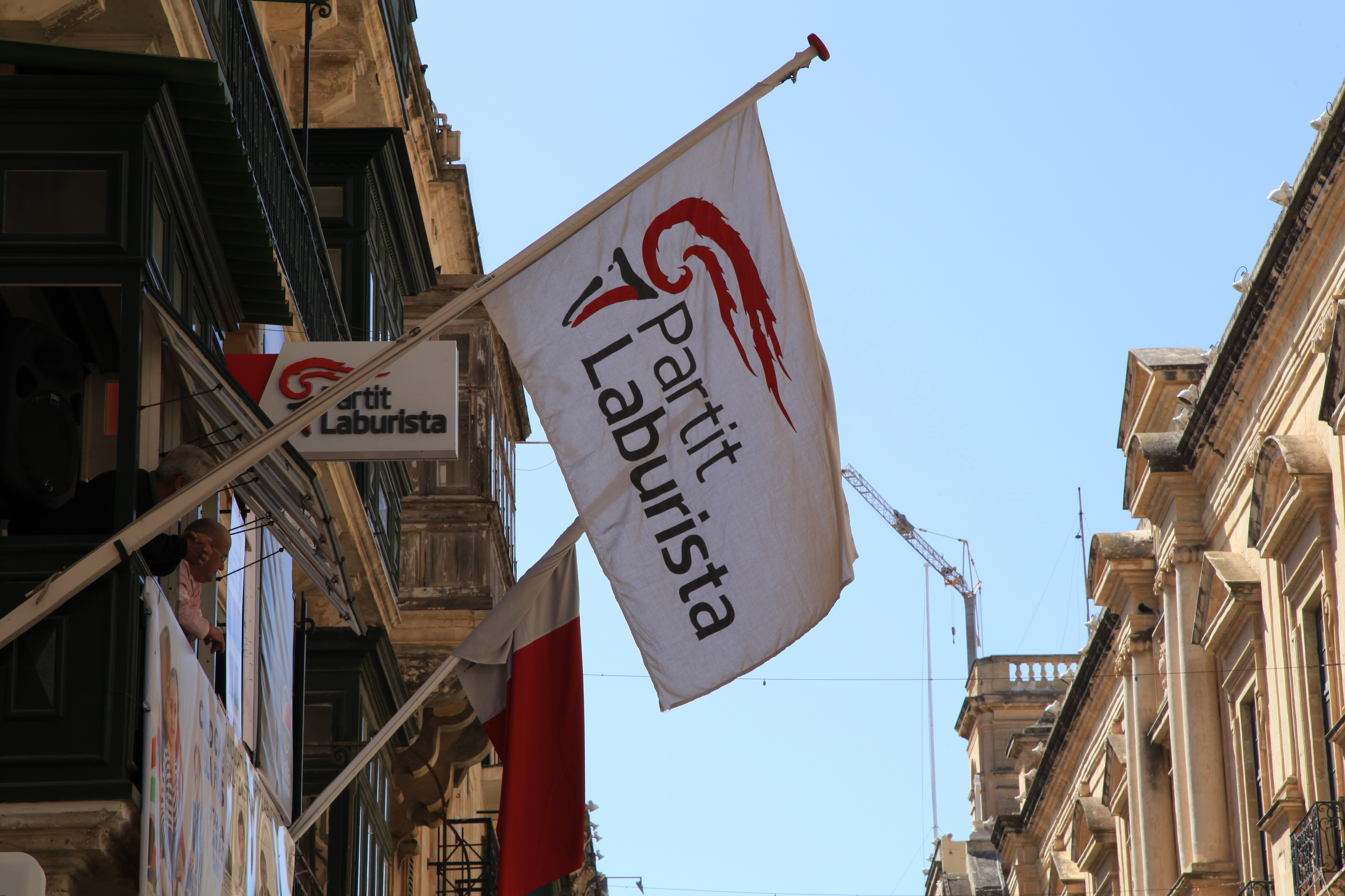 Election celebrations at Triq ir-Repubblika in Valletta, Malta